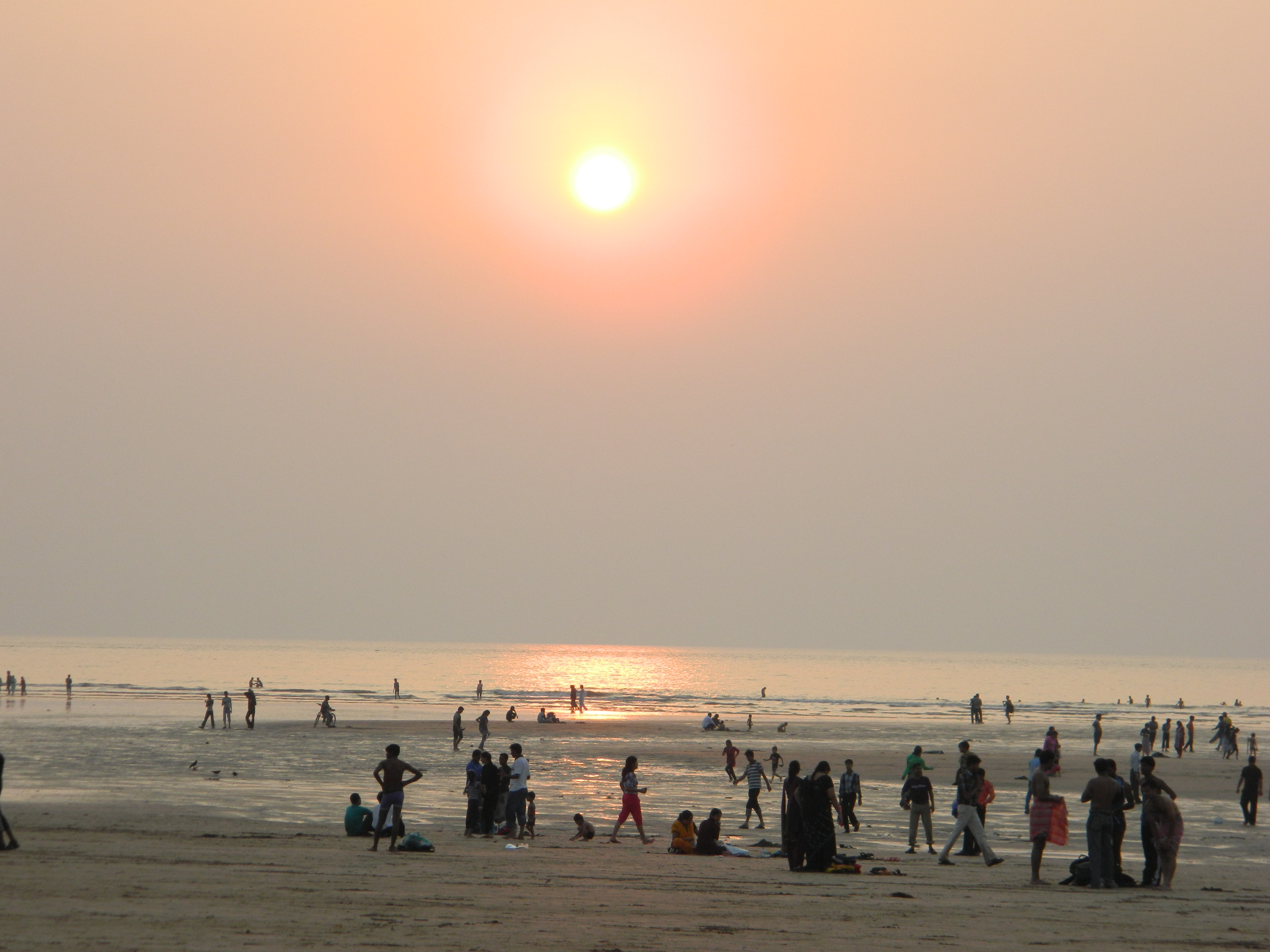 Aksa Beach afternoon